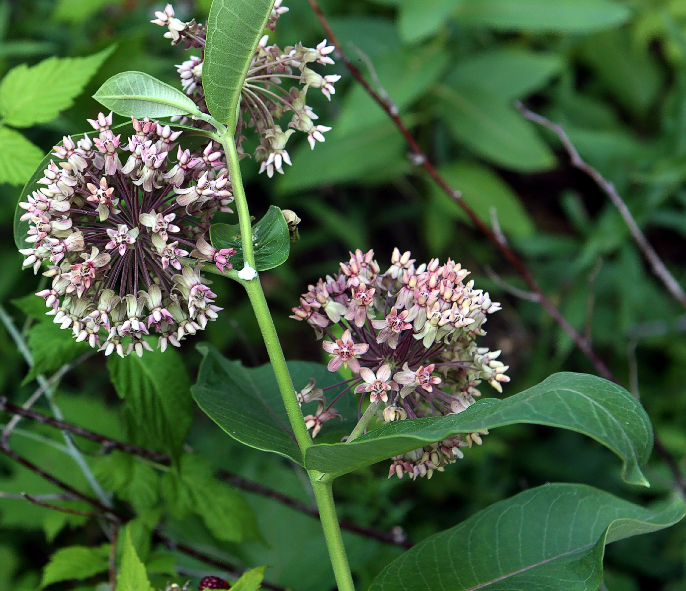 Flowers and sap of Common Milkweed, self made picture taken summer of 2008.